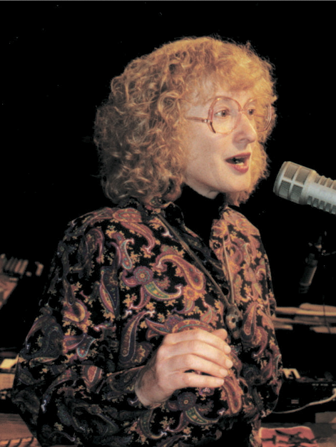 rehearsal photo of Priscilla McLean on a concert tour, Massachusetts Museum of Contemporary Art (MASS MoCA), North Adams. Photo by Barton McLean (husband) who gives his permission